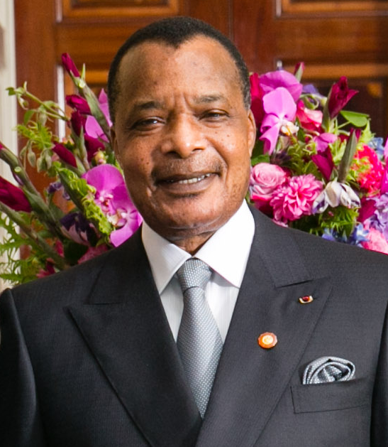 Denis Sassou Nguesso